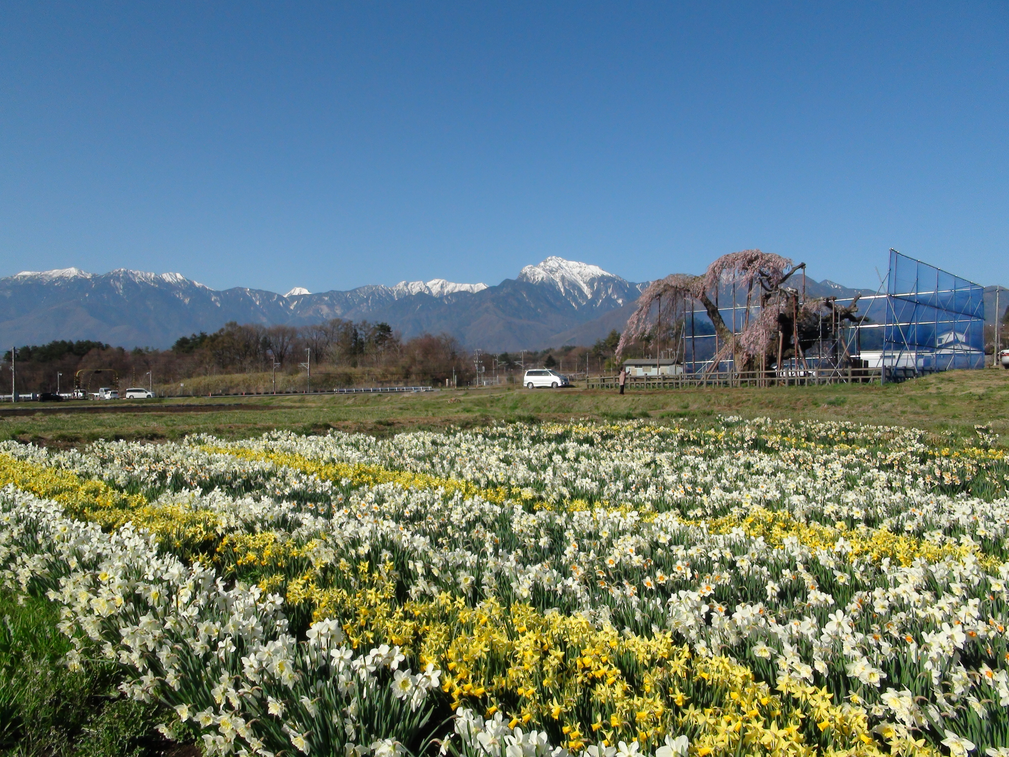 Shinden-no Oitozakura and flower garden